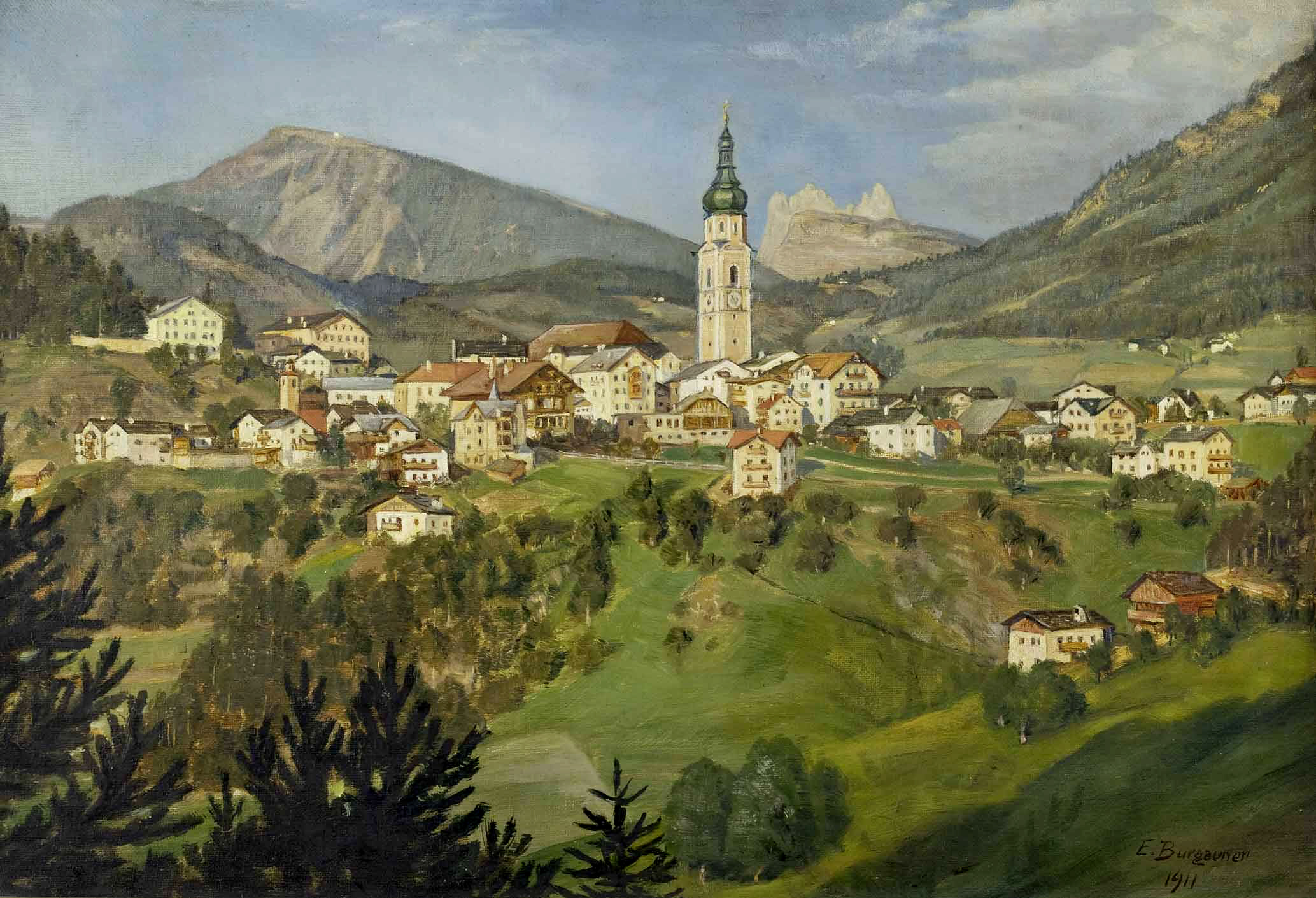 Kastelruth, oil painting on canvas by Eduard Burgauner AD 1911, ca. 38 x 55 cm